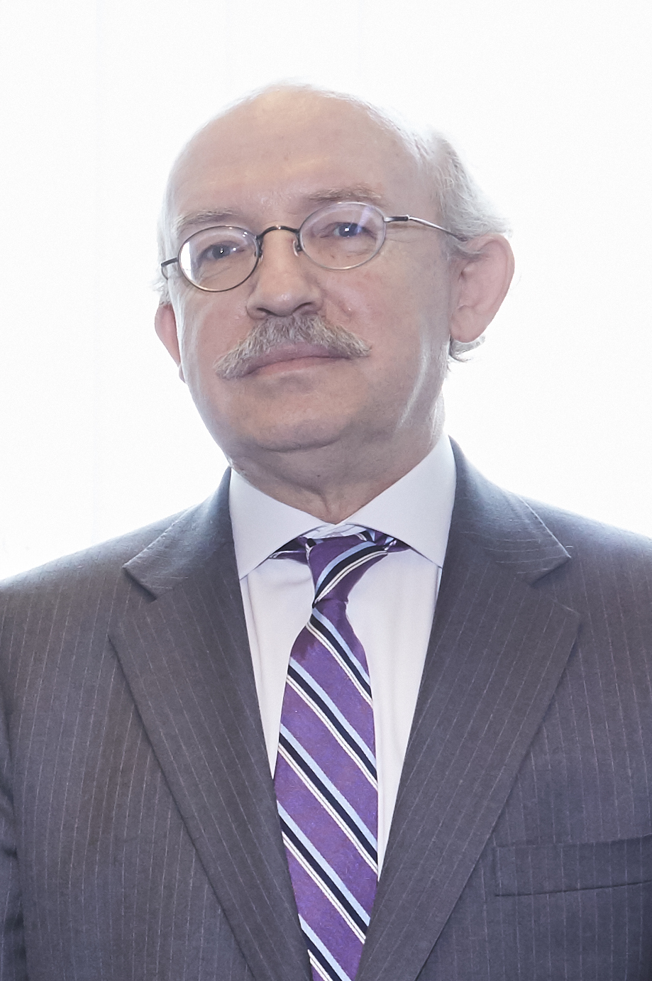 Armin Ernesto Andereya Latorre, Ambassador of Chile to the UN Vienna.